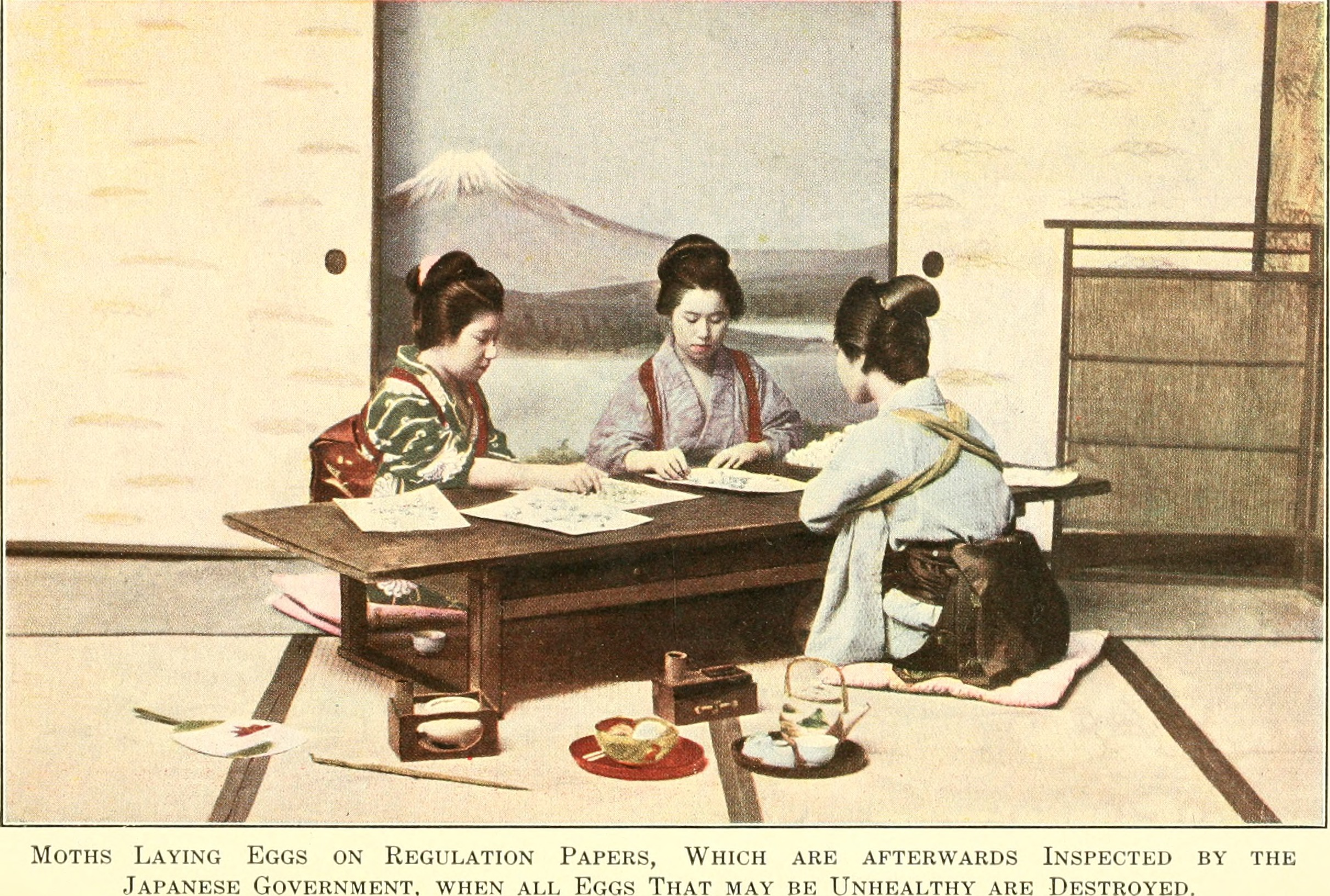 Title: Silk; its origin, culture, and manufacture; Year: 1911 (1910s) Authors: Sheffeld, Charles Arthur, b. 1873 Subjects: Silk Silk industry Sericulture Publisher: Florence, Mass., The Corticelli silk mills Text Appearing Before Image: souvenirs and many scholars are only too glad to buy theseto take home. Teachers will please notice that we make aspecial offer on orders for large lots. Each box containstwo cocoons. Price, by mail, postpaid, 1 box, 5 cents ; 10boxes, 40 cents ; 25 boxes, 75 cents. We invite correspondence with teachers desiring speci-mens for schoolroom use. All questions will be cheerfullyanswered if a 2-cent stamp is inclosed for reply. Weare anxious to help every school to obtain what it needs. Corticelli Silk Mills, Florence, Mass. 46 Text Appearing After Image: Teachers* Silk Culture Chart, This chart has over thirty engravings showing thedifferent steps in the culture and manufacture of silk.Printed on heavy coated cardboard v^ith reinforced top